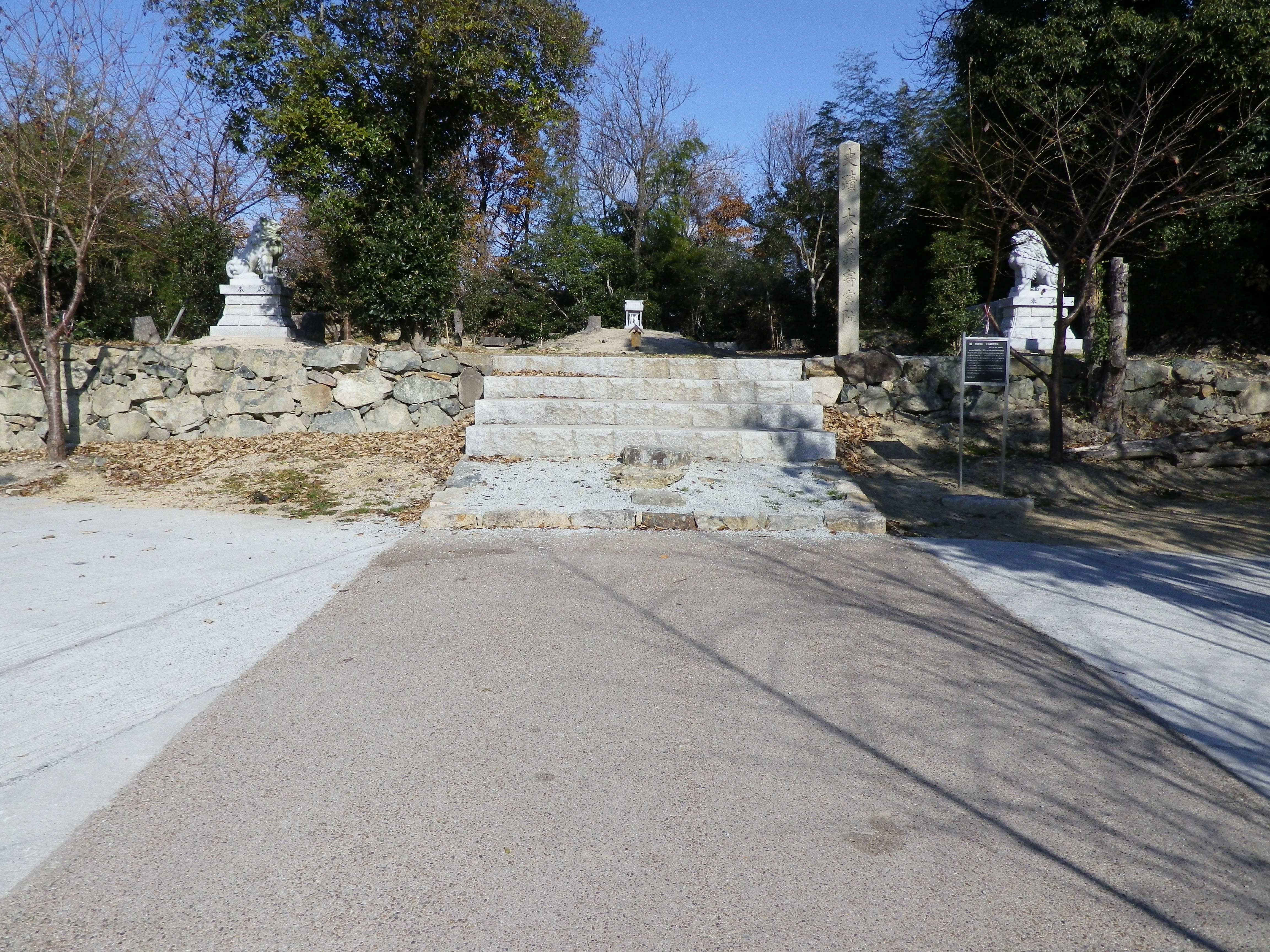 Ōdara Yosemiya site view